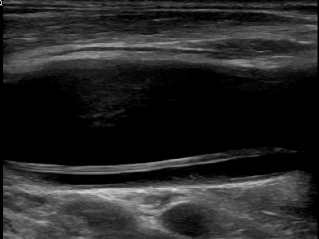 common carotid artery dissection ultrasound